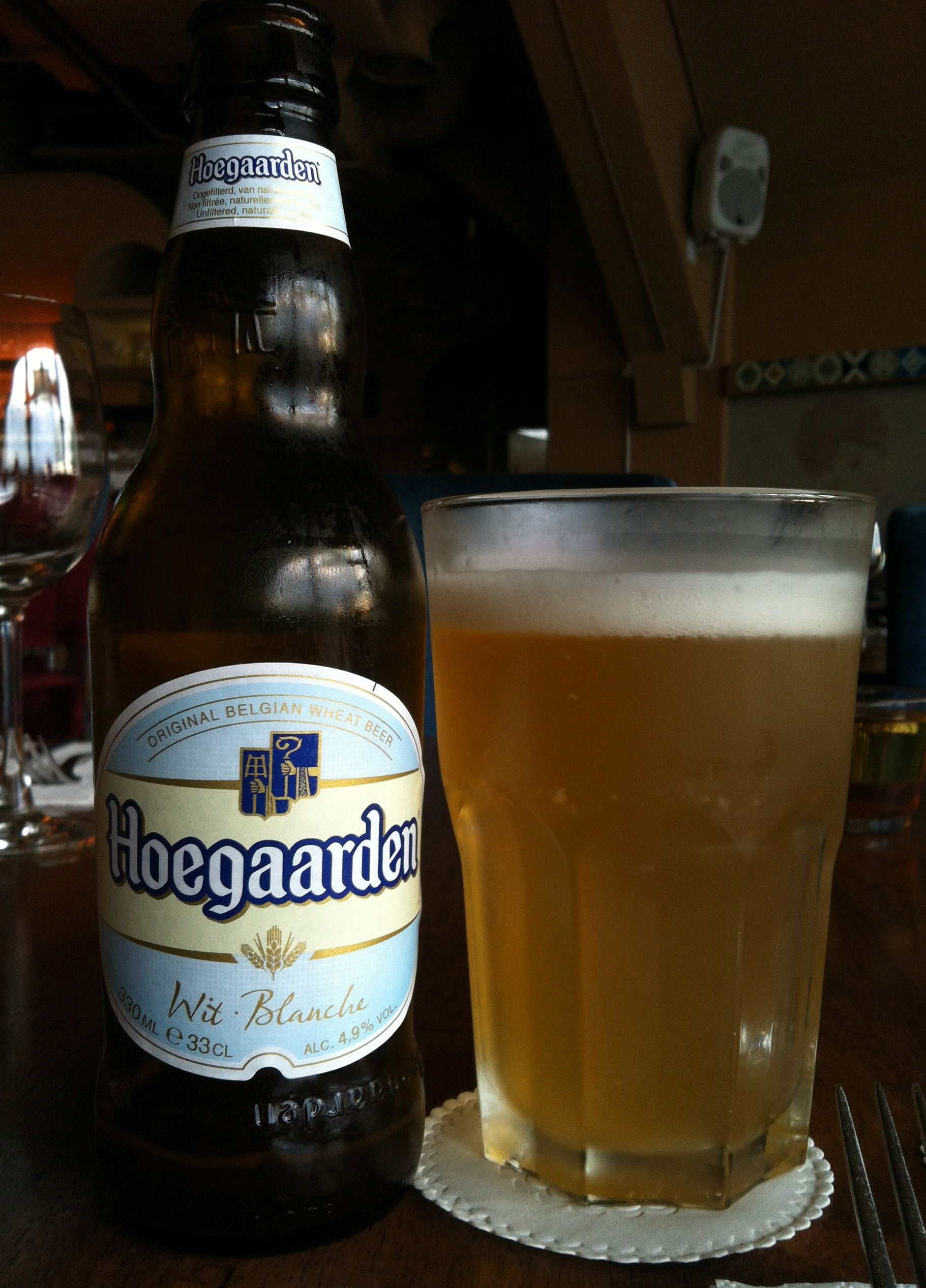 A bottle and a glass of Hoegaarden Wit/Blanche beer.